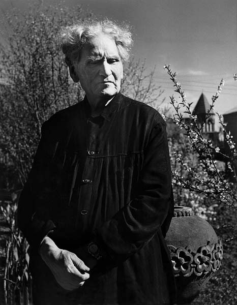 Images from Vahan Kochar's collection. Author:Andranik Kochar